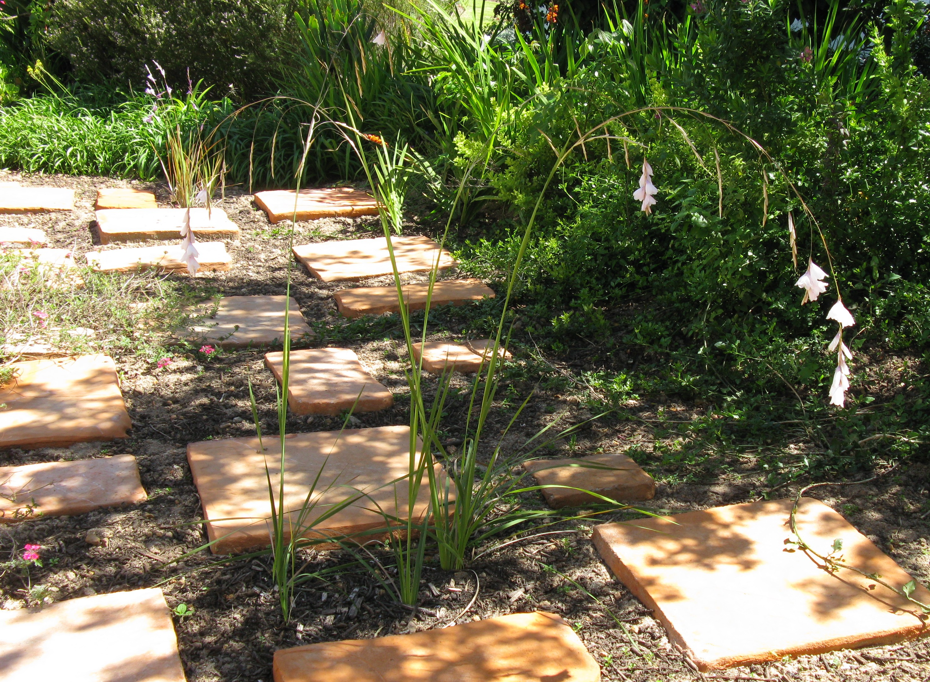 The slender, drooping inflorescence gave rise to names such as "Fairies' fishing rods".